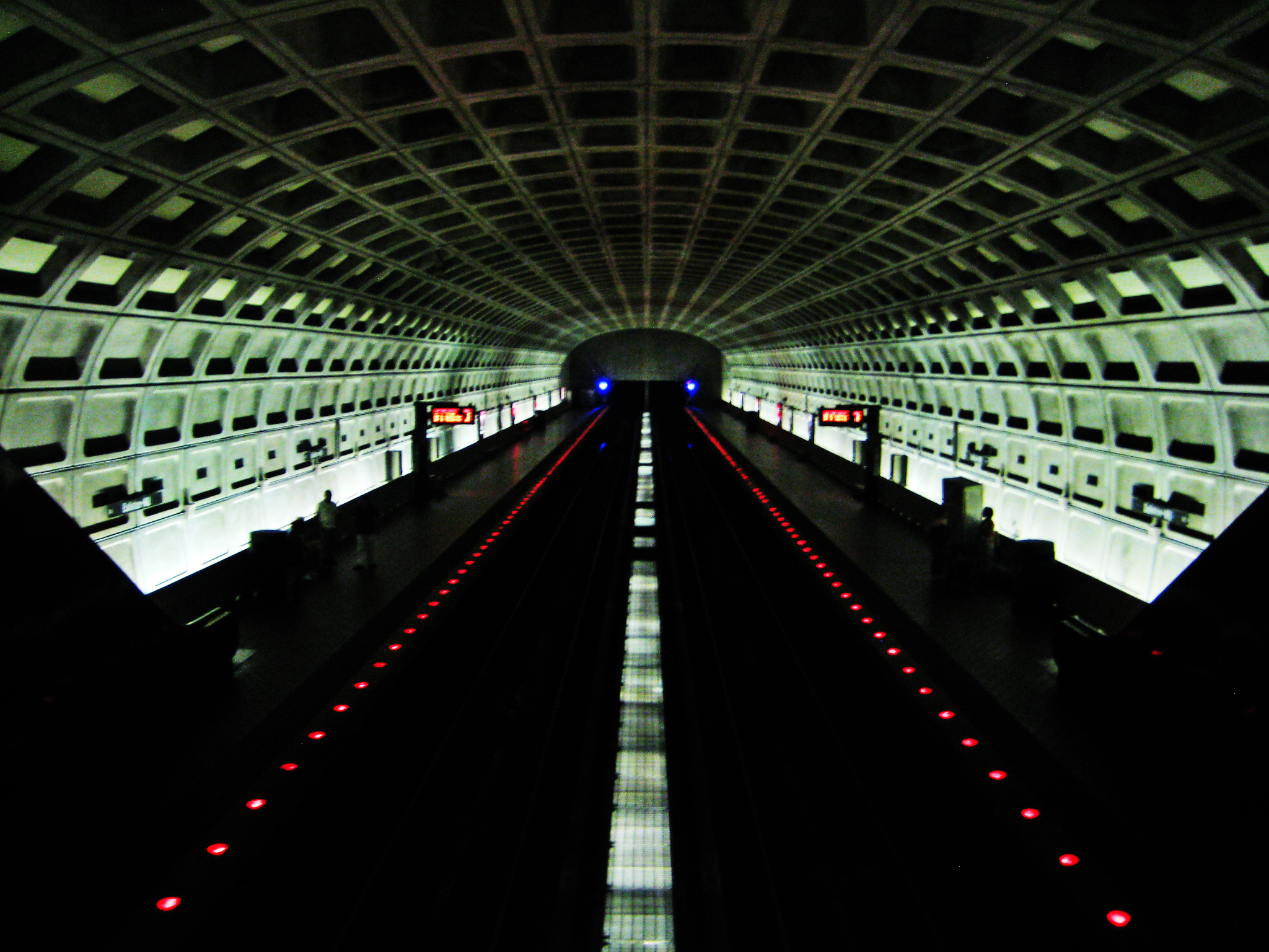 Ballston-MU Washington Metro Station